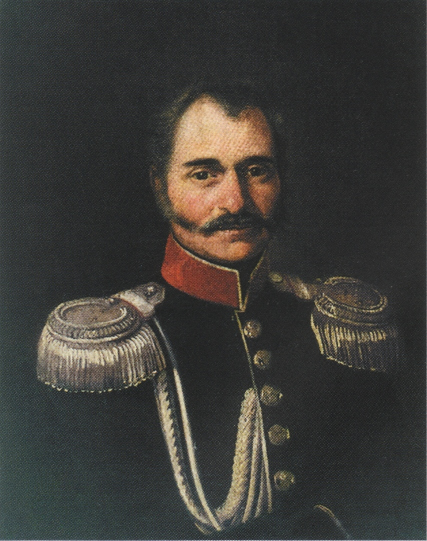 Esadze Spiridon Osipovich